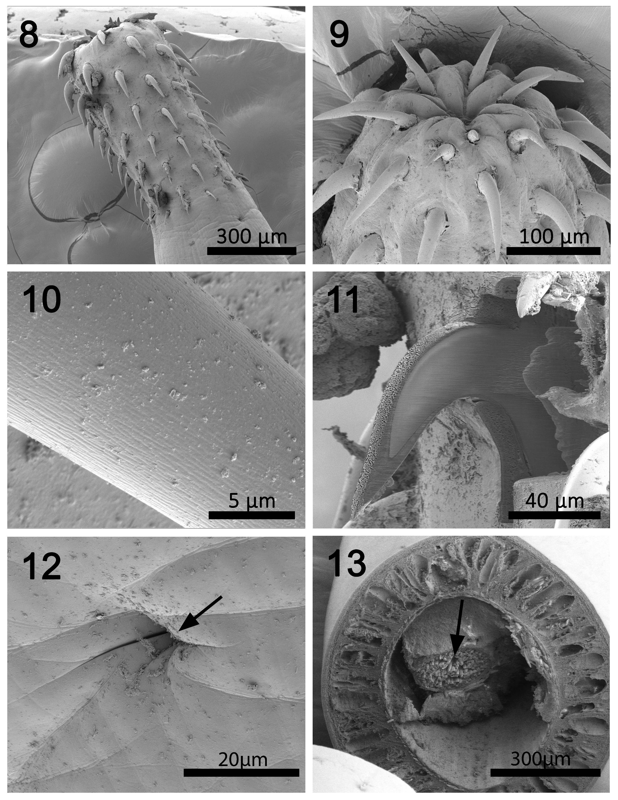 Figures 8-13 of paper Scanning Electron Microscopy (SEM) of specimens of Cavisoma magnum collected from Mugil cephalus in the Arabian Gulf. 8. A lateral view of a proboscis not fully extended showing one lateral neck sensory pore (arrow). 9. A slightly invaginated apical end of a proboscis showing retracted epidermal cone. 10. A high magnification of a proboscis hook showing the shallow longitudinal serrations on the surface of hooks. 11. A longitudinal gallium cut of a proboscis hook showing the thick sulfur-rich hardened areas at the hook tip and edge (Table 3). 12. High magnification of the neck sensory pore shown in Figure 8. 13. A cross section of a gravid female showing the thick tegument and lacunar canals and a mass of eggs within the ligament sac in the body cavity (arrow).